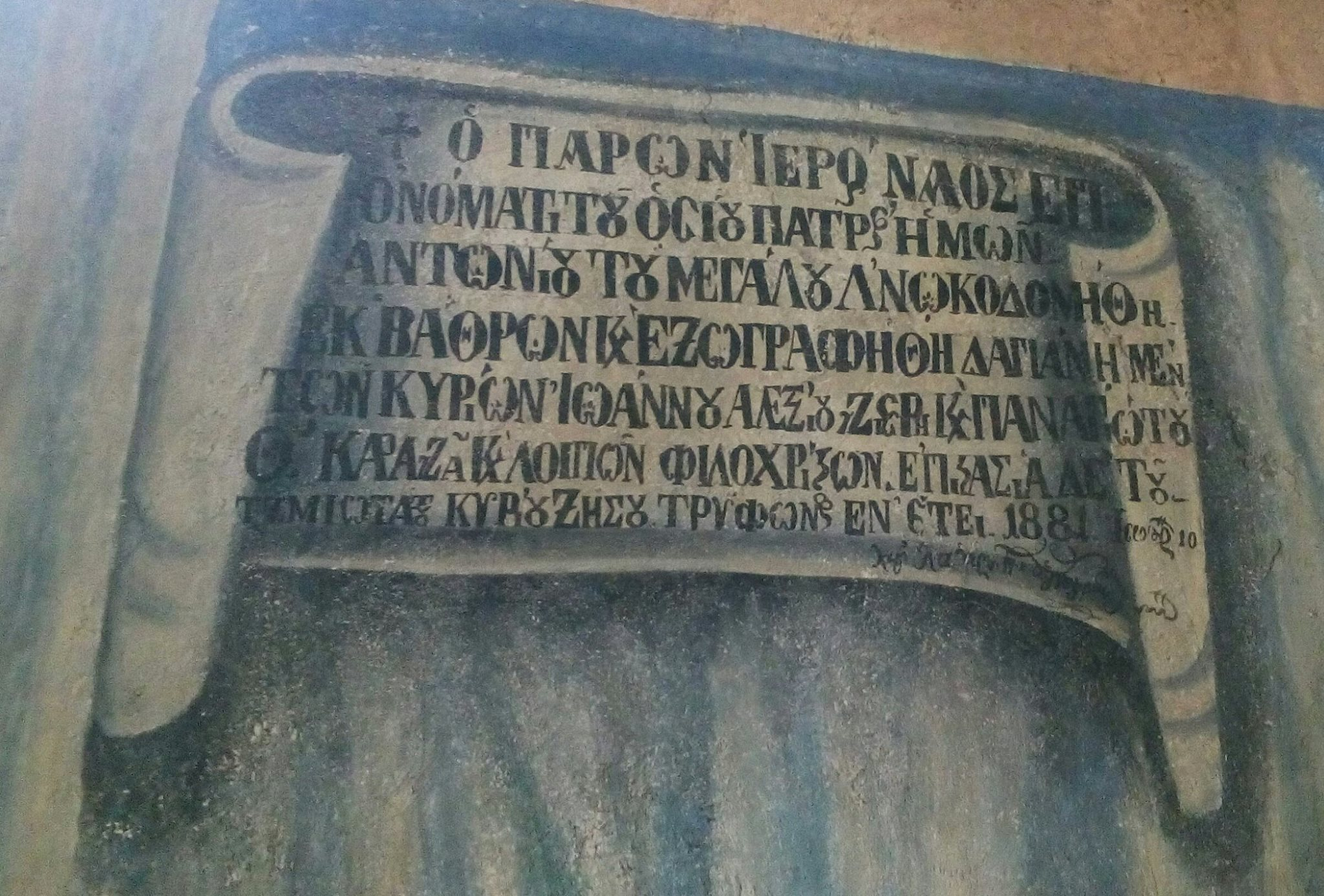 Sain Anthony Church in Melnik Inscription